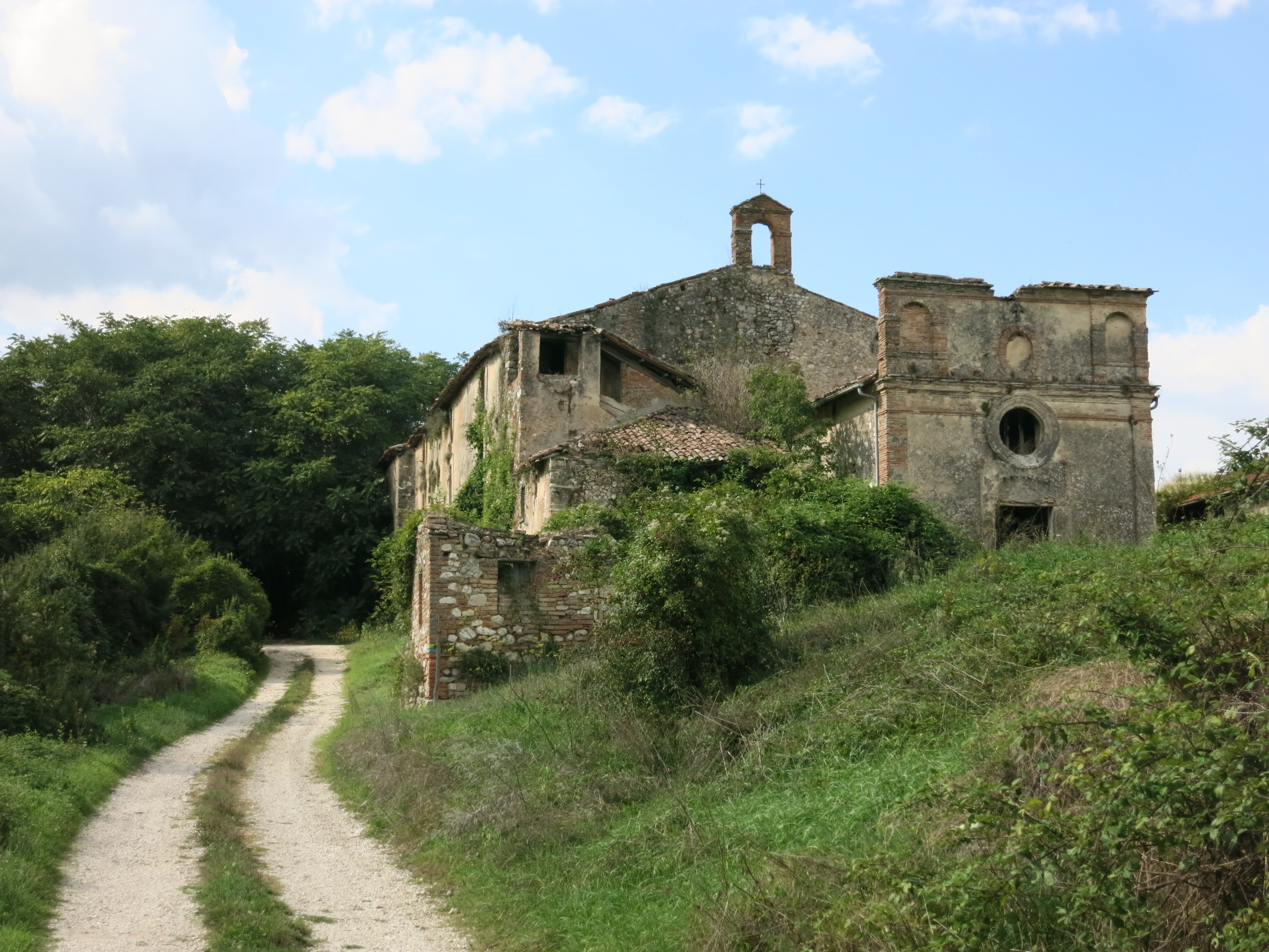 Ruins of the ghost town of Repasto or Reopasto, in the municipality of Contigliano (province of Rieti, central Italy)